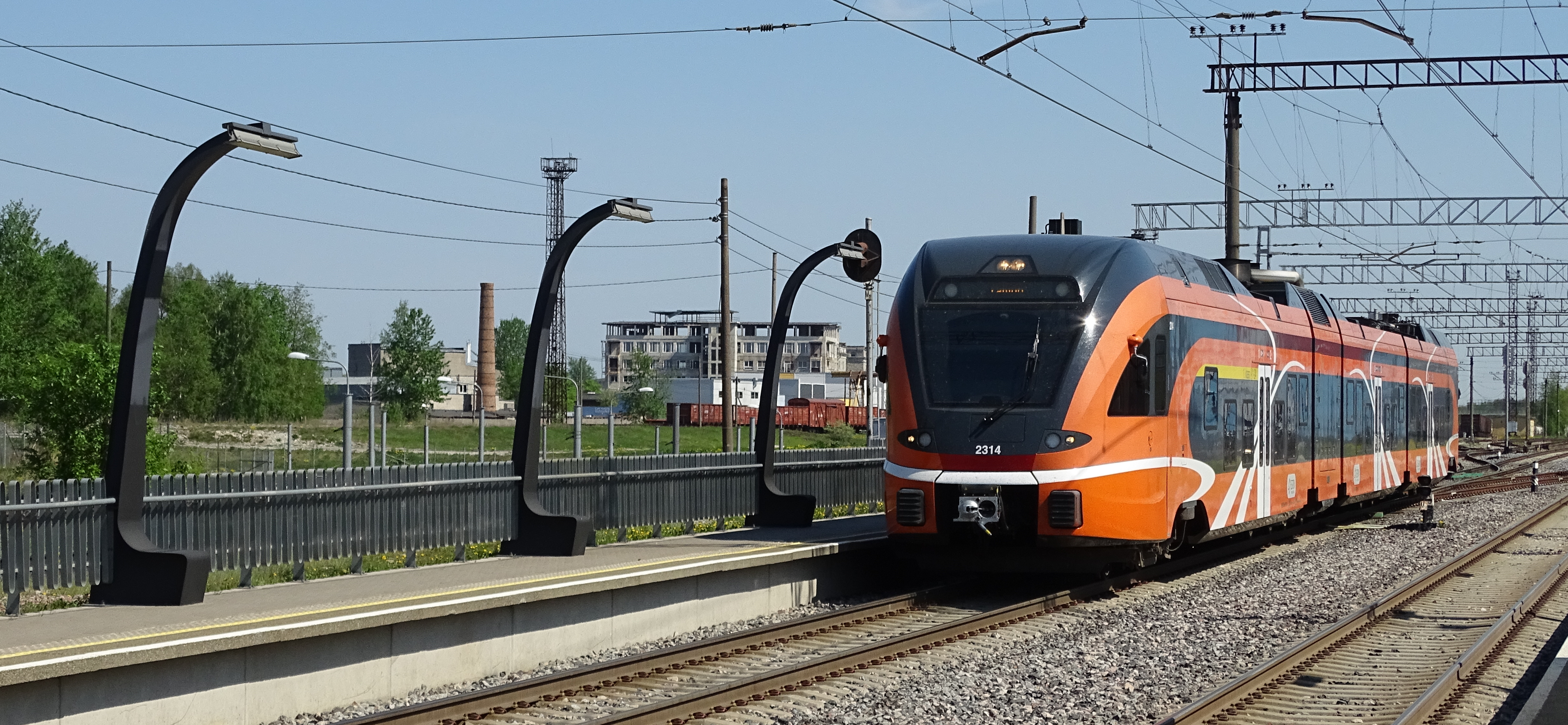 Elron Stadler FLIRT DMU 2314 in Ülemiste station, Estonia.